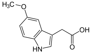 Structure of 5-methoxyindoleacetic acid